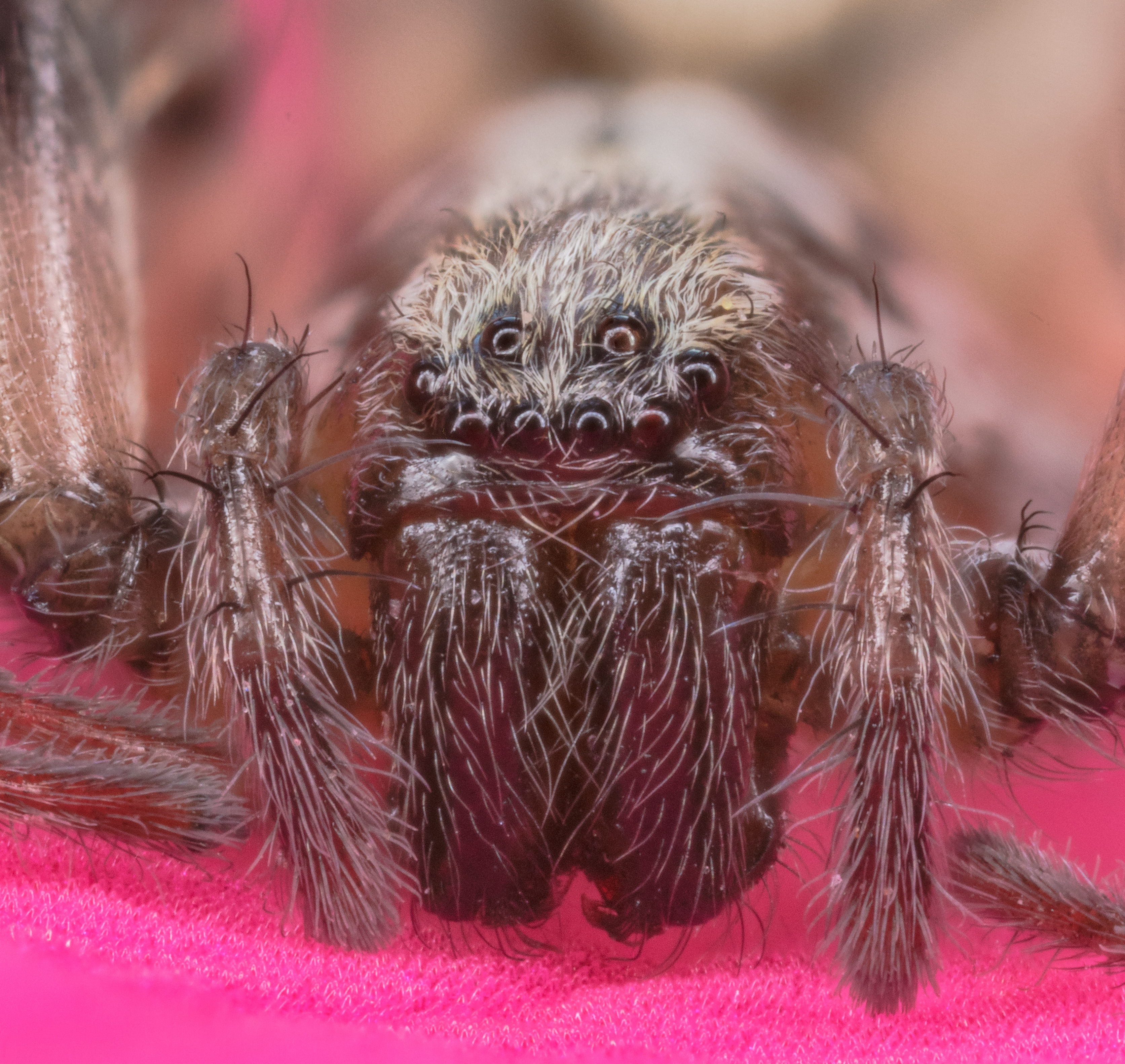 Wall spider (Dictyna civica), Munich, Germany